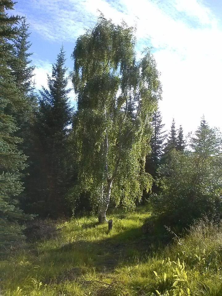 betula pendula